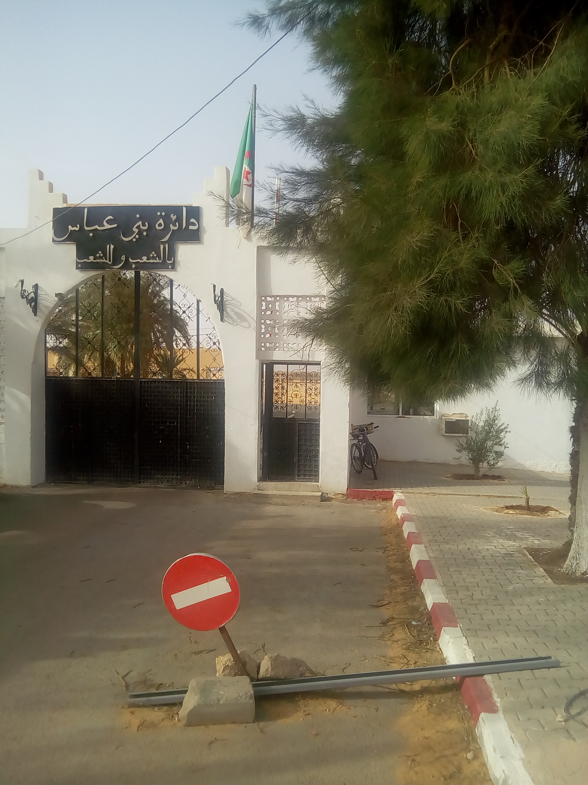 Béni Abbès District Building